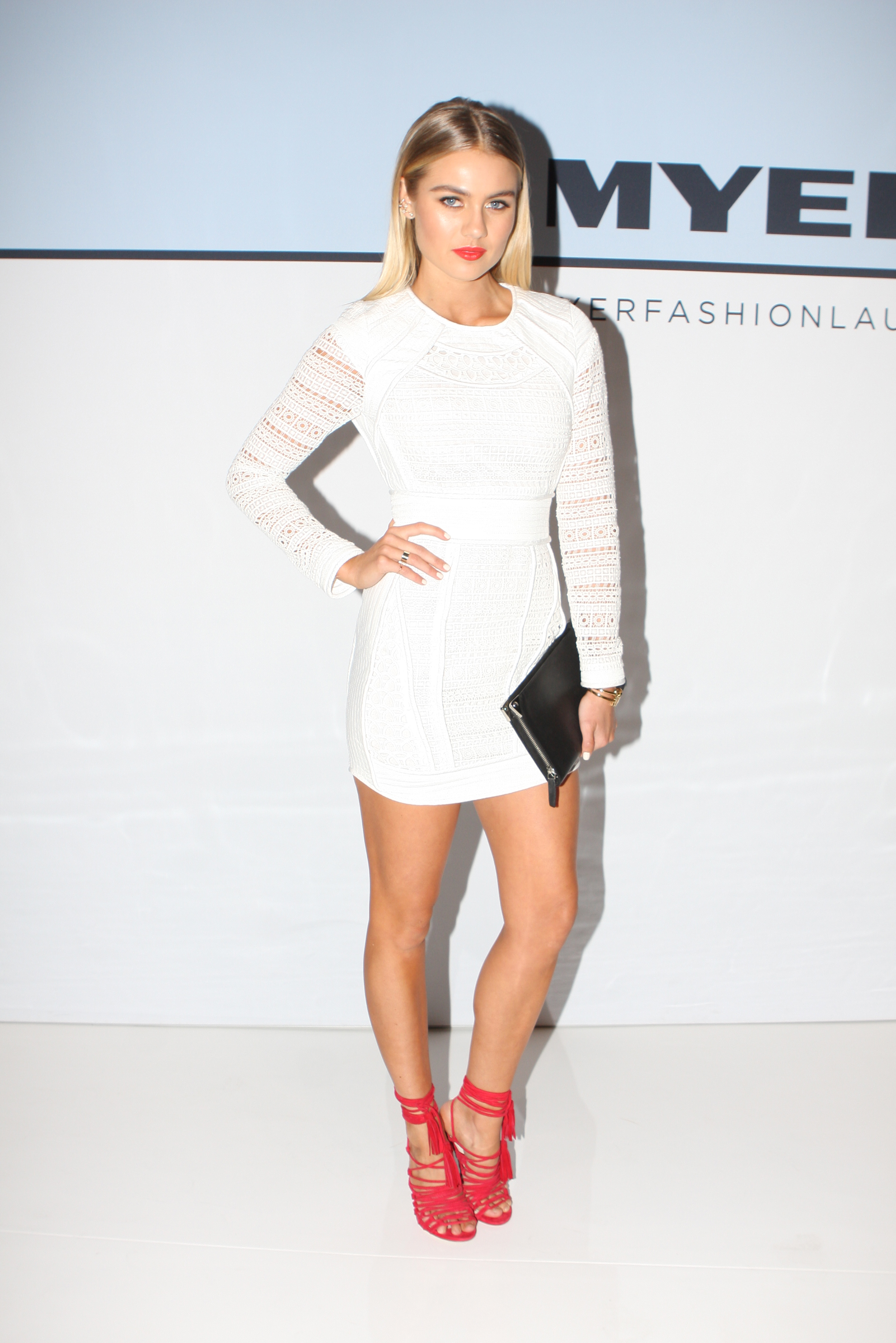 Elyse Knowles at Myer Fashion Spring Launch 2015